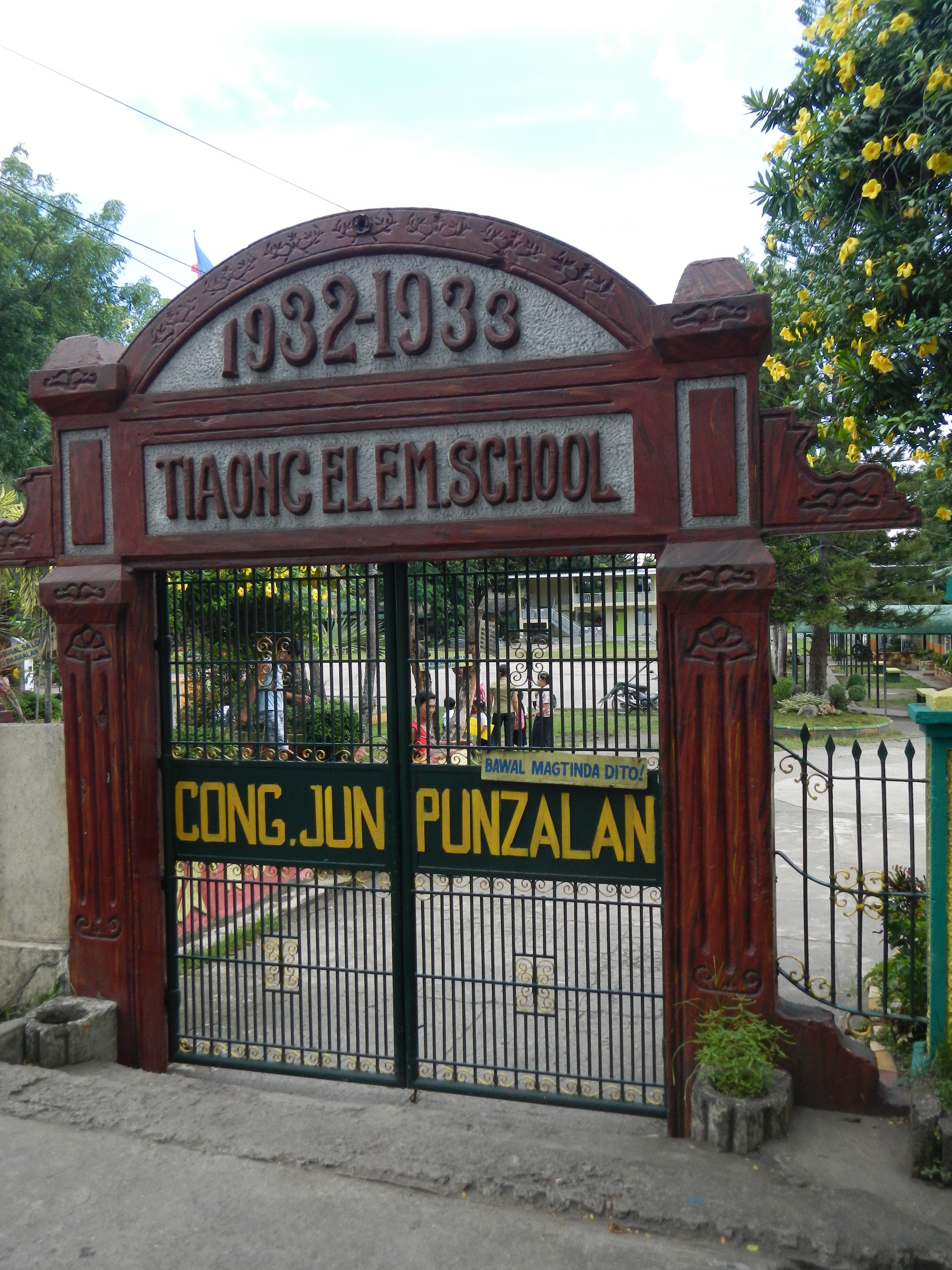 Tiaong Elementary school near the Moises Amat Escueta Ala-ala Park (November 25, 1925 – January 8, 1983) - Tiaong, Quezon [1] [2] -- includes the --- bust of Moises Amat Escueta, the 2 monuments in honor of General Ye Fei (Sixto Mercado Tiongco, a Filipino-Chinese Tiaong native who joined the Chinese Liberation Armyhonoring the Tiaong townsfolk who fought during World War II), a building donated by Lucio Tan; statue of slain Congressman Jun Punzalan near the town municipal building -- Tiaong, Quezon [3] The Municipality of Tiaong (Filipino: Bayan ng Tiaong) is a first class municipality in the province of Quezon,[4] Philippines. It lies in the deep coconut region of Quezon, some 96 kilometres (60 mi) southeast of Manila. According to the 2011 census, it has a population of 98,102 people. -- Tiaong municipal building or Town Hall[5] 2013 Election Tiaong Municipal Hall of Tiaong, Quezon [6] 13° 57' 33.49" N 121° 19' 23.62" E [7] [8] Coordinates: 13°55'28"N 121°19'43"E.